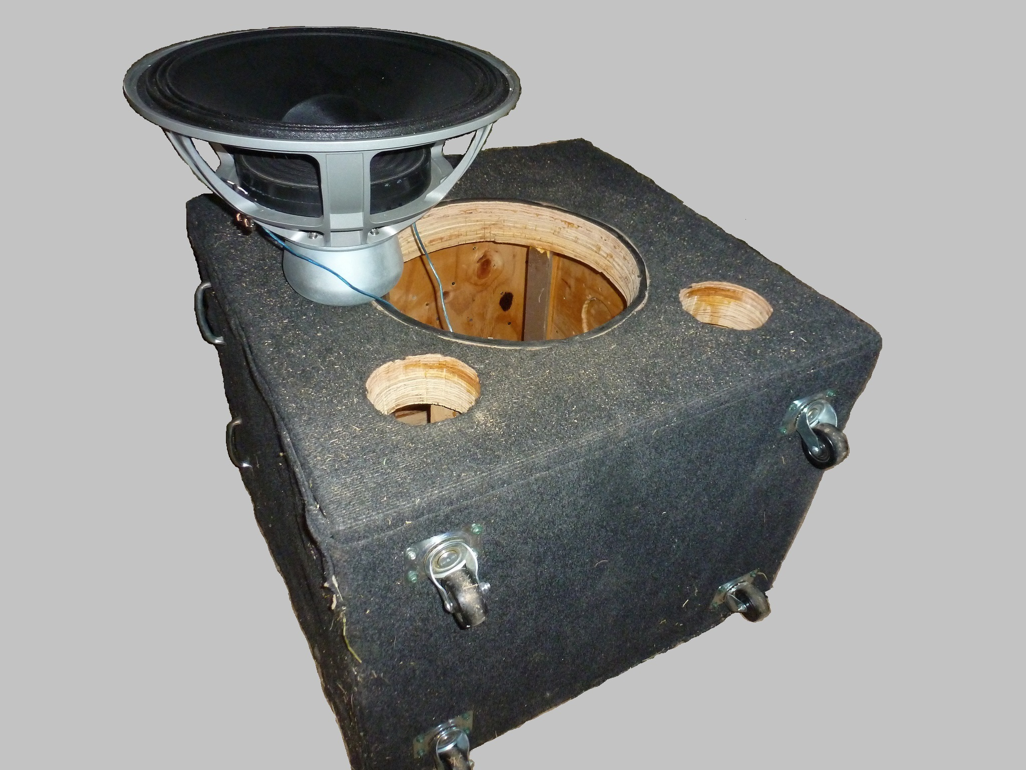 A custom made subwoofer enclosure and Speaker driver